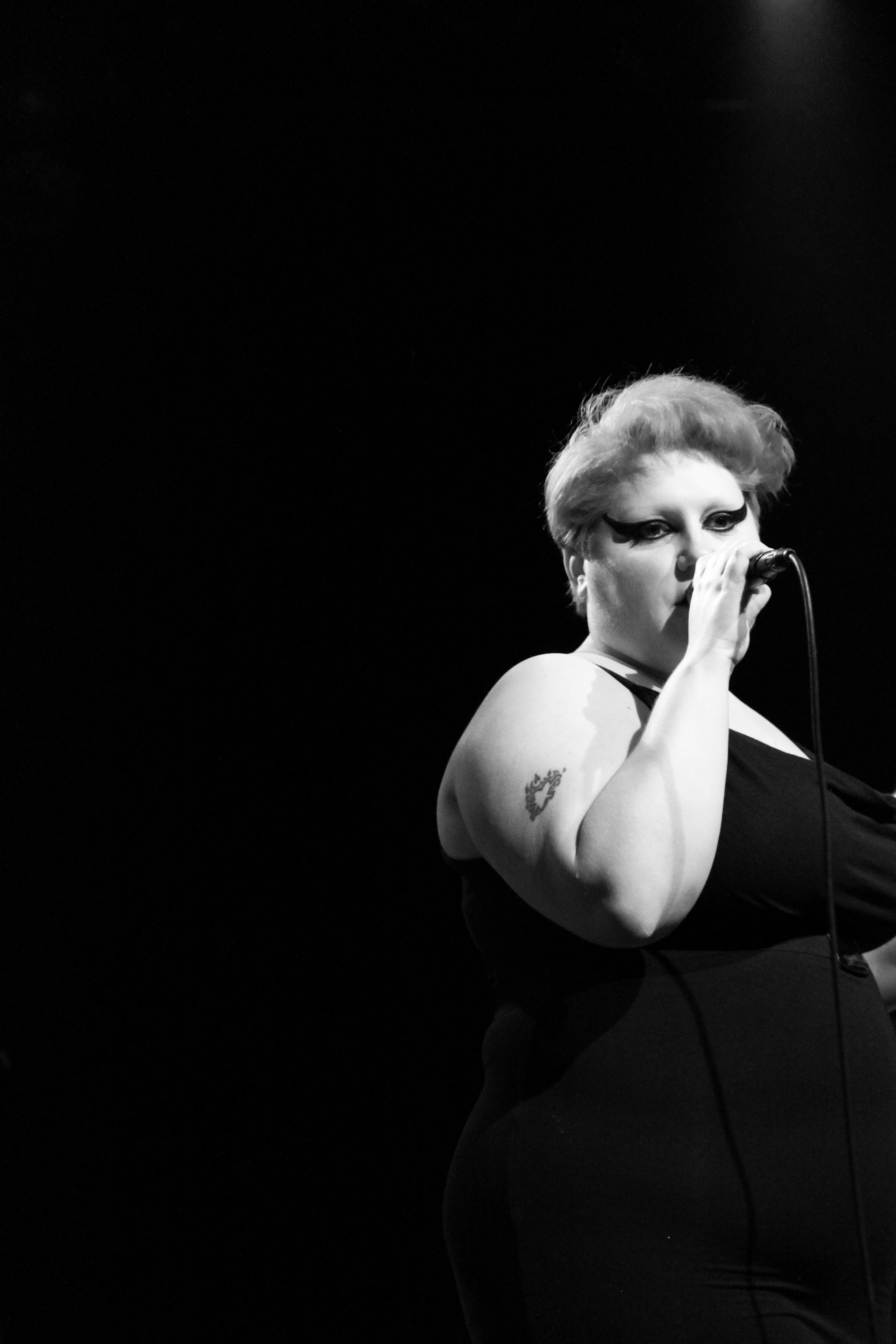 Beth Ditto performing with Gossip at the Commodore Ballroom, Vancouver, B.C.